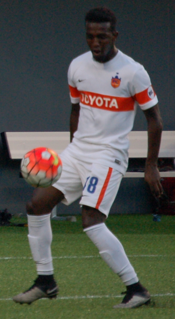 Omar Mohamed (CIN) Taken during an exhibition match between FC Cincinnati and Crystal Palace F.C. at Nippert Stadium in Cincinnati on July 16, 2016.